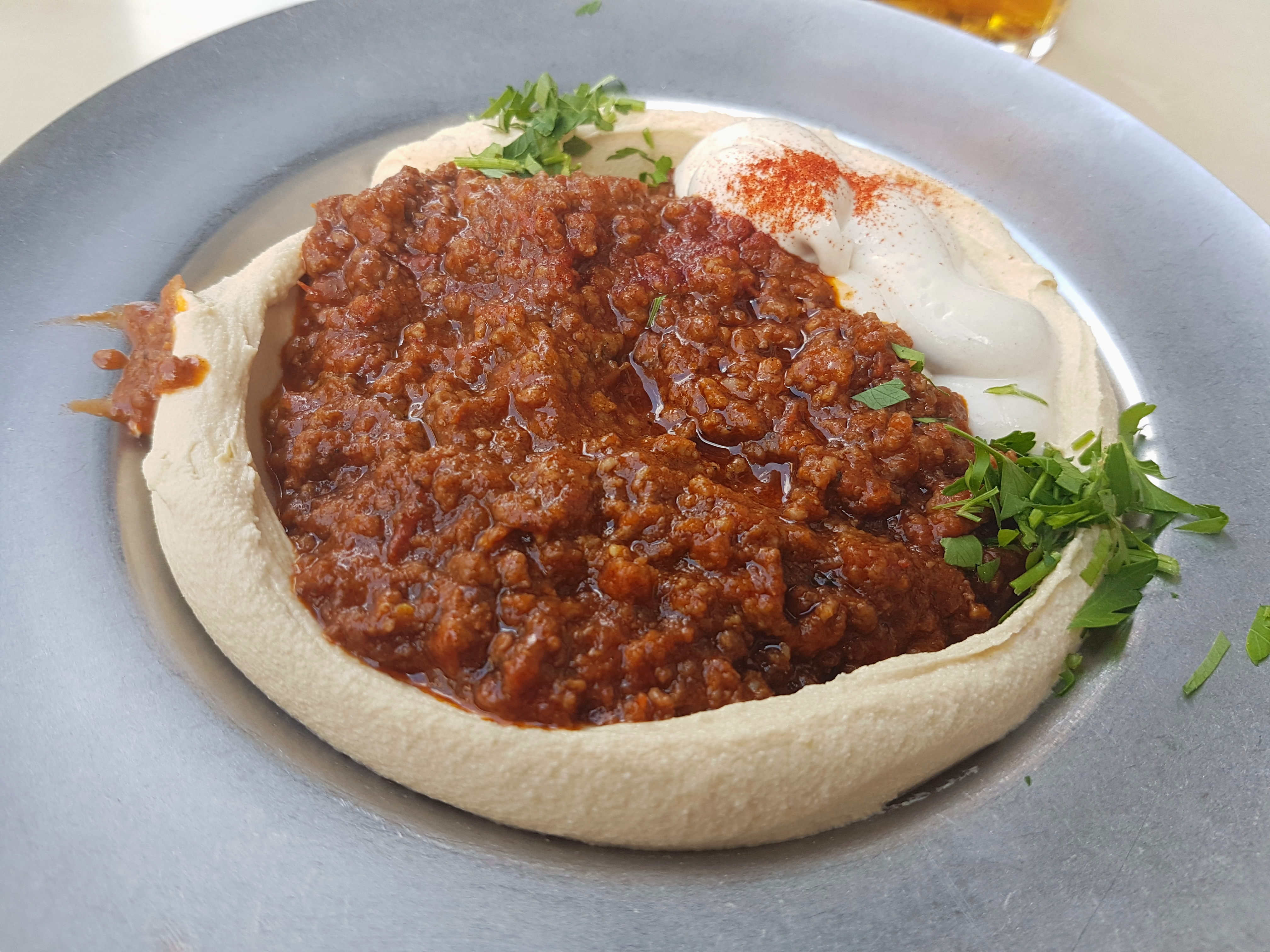 Hamshuka, lamb and minced beef in tomato sauce with chilly. There was hummus and pita bread with it. Photographed at Restaurant Neni at Naschmarkt in Vienna.